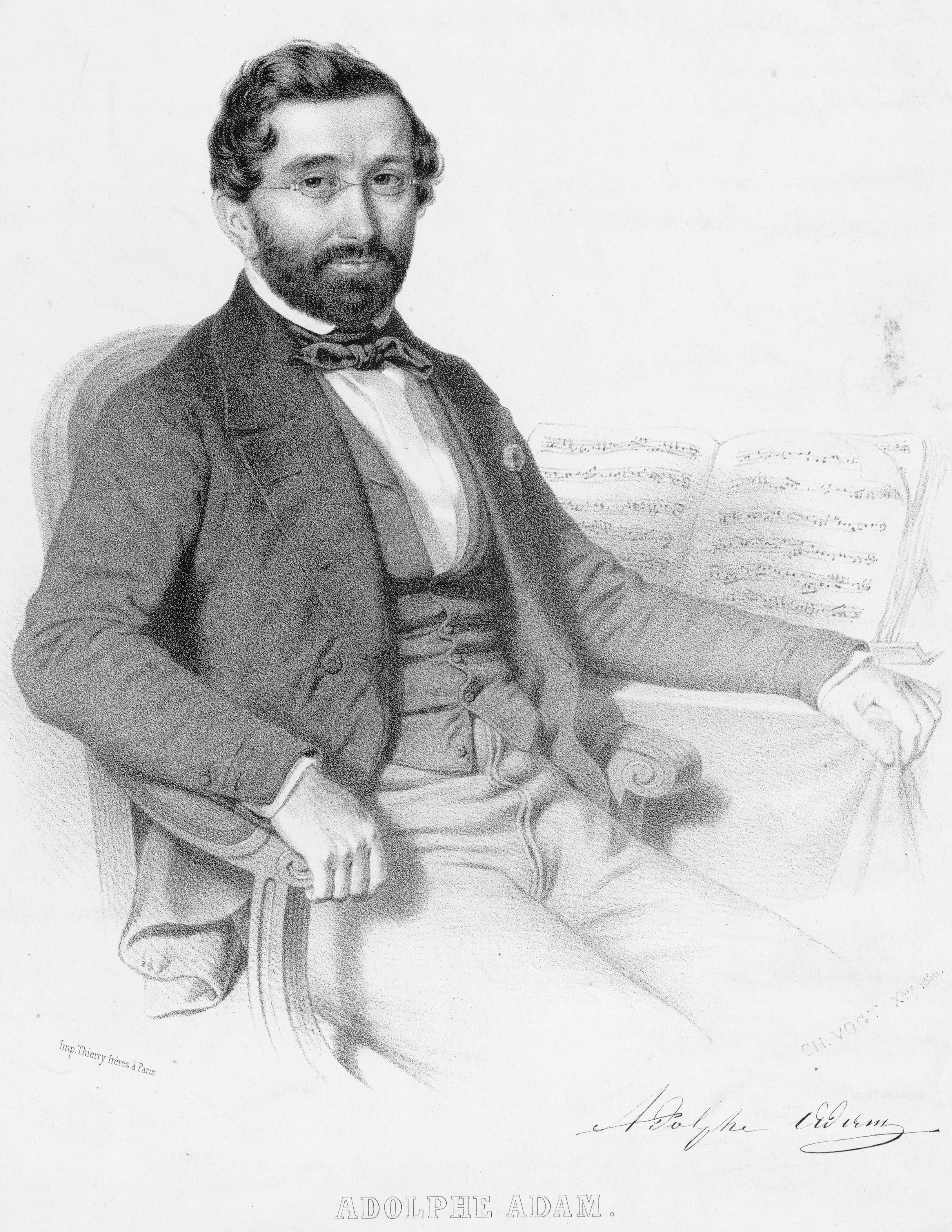 Adolphe Adam (1803–1856), French composer